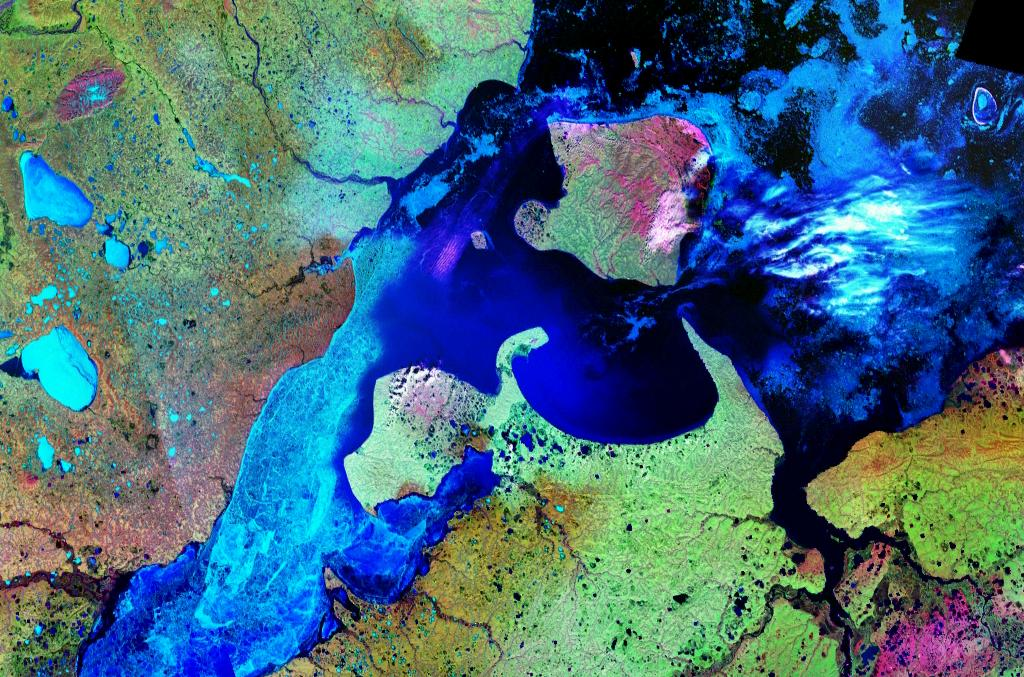 The Siberian Bay of Nordvik (center) between the rivershed areas of the Khatanga (left: Khatanga Gulf) and Anabar (right: Anabar Gulf). To the north is located the island Bolshoy Begichev. On the left the eastern part of the Taymyr Peninsula and to the north the Laptev Sea. Landsat 7 Pseudo color image.